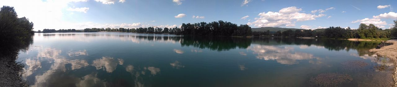 A known lake in city of Zaprešić